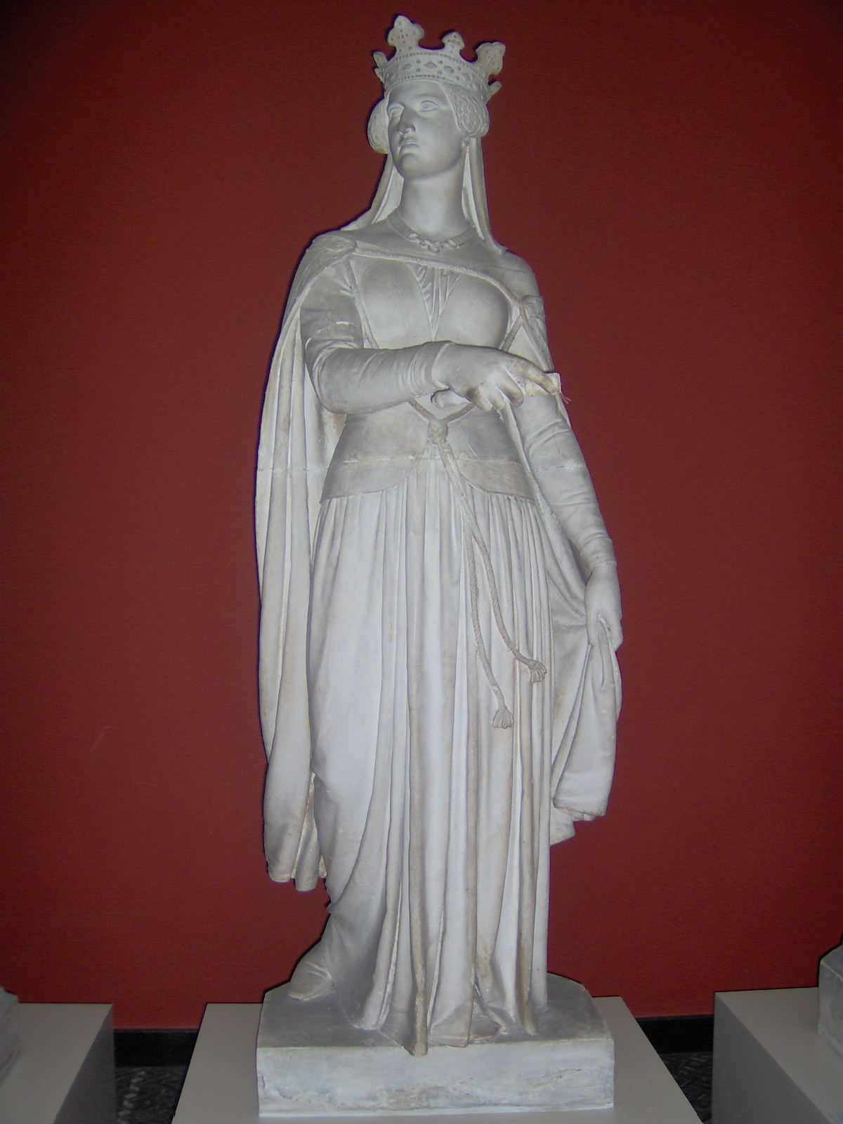 Philippa of England by Herman Wilhelm Bissen